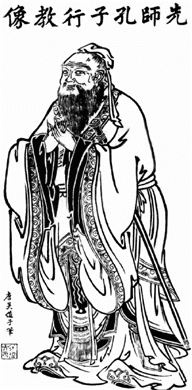 Engraving of Confucius. The Chinese characters 先師孔子行教像, to be read from right to left in the picture, signify “Portrait of the First Teacher, Confucius, Giving a Lecture”.